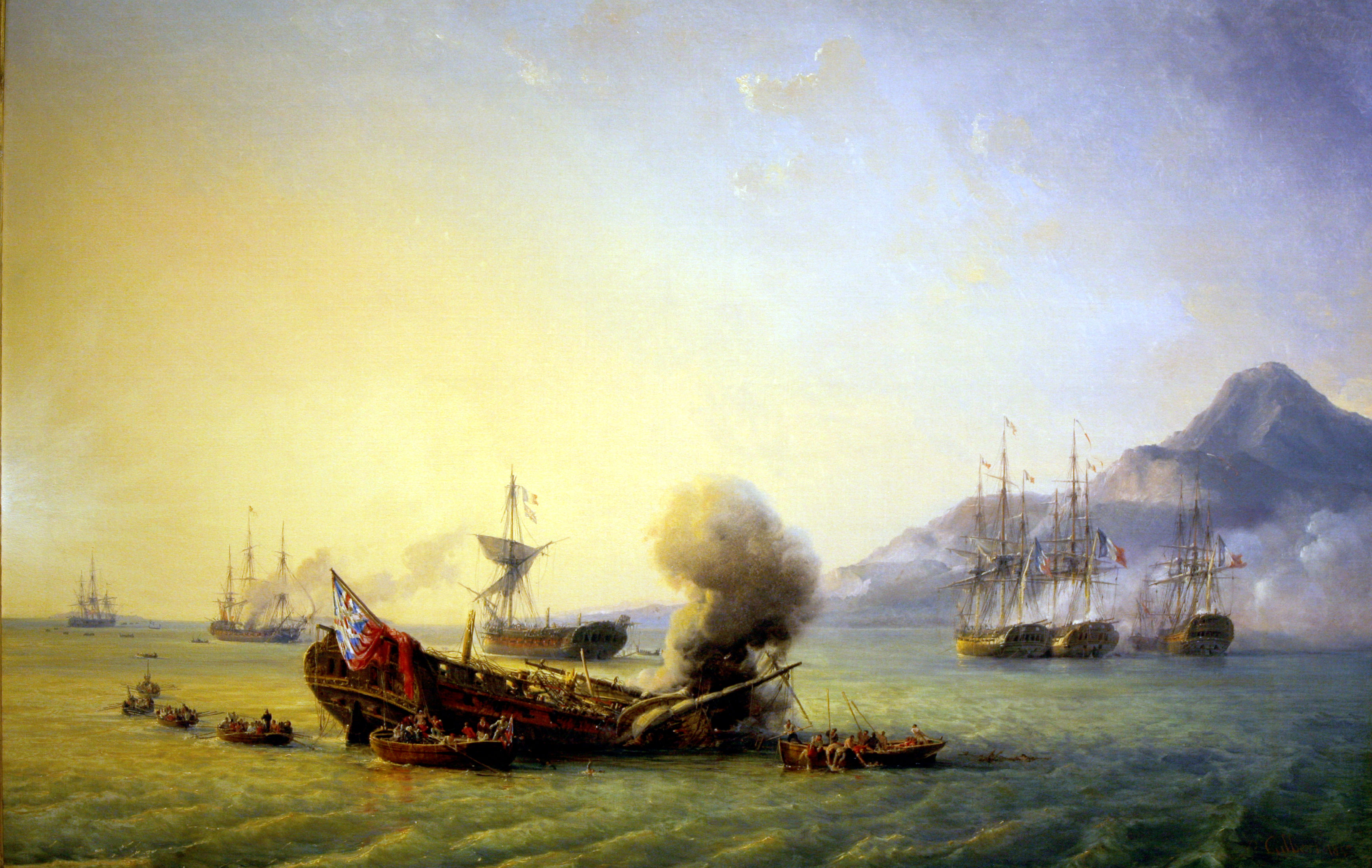 Battle of Grand Port Visible are, from left to right: HMS Iphigenia striking her colours (actually happened the next day) HMS Magicienne being scuttled by fire HMS Sirius being scuttled by fire HMS Nereide surrendered French frigate Bellone French frigate Minerve Victor (background) CeylonOil on canvasCollection Musée national de la Marine Native nameMusée national de la MarineLocationParisCoordinates48° 51′ 43″ N, 2° 17′ 15″ E Established1827Web page control : Q1286709 VIAF: 19144648200974718522 ISNI: 0000 0001 2259 2914 LCCN: n50055356 Museofile: M5026 WorldCat institution QS:P195,Q1286709Source/Photographer Med